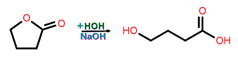 Gamma-hydroxybutyric acid synthesis from butyrolactone